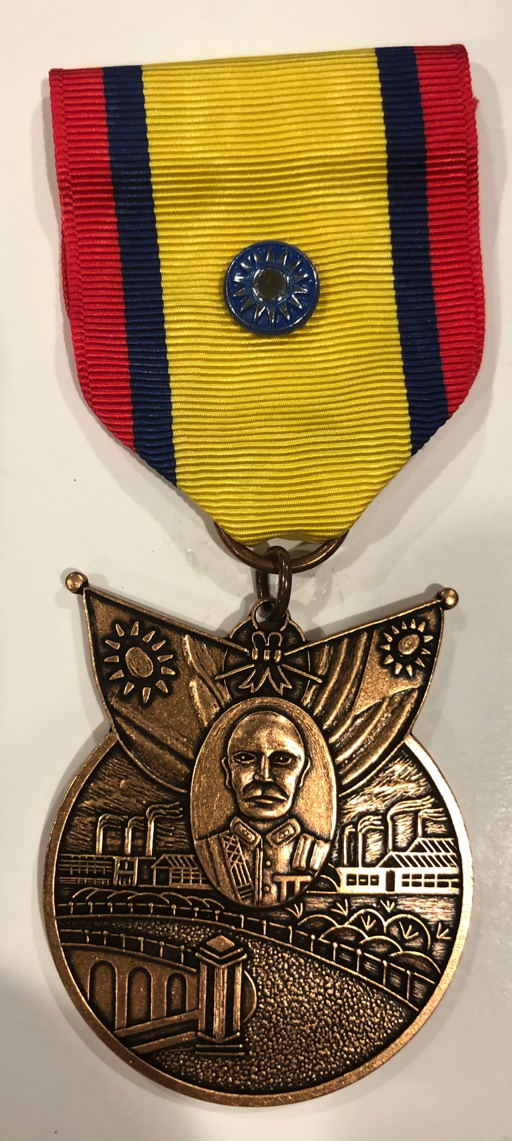 China War Memorial Medla front